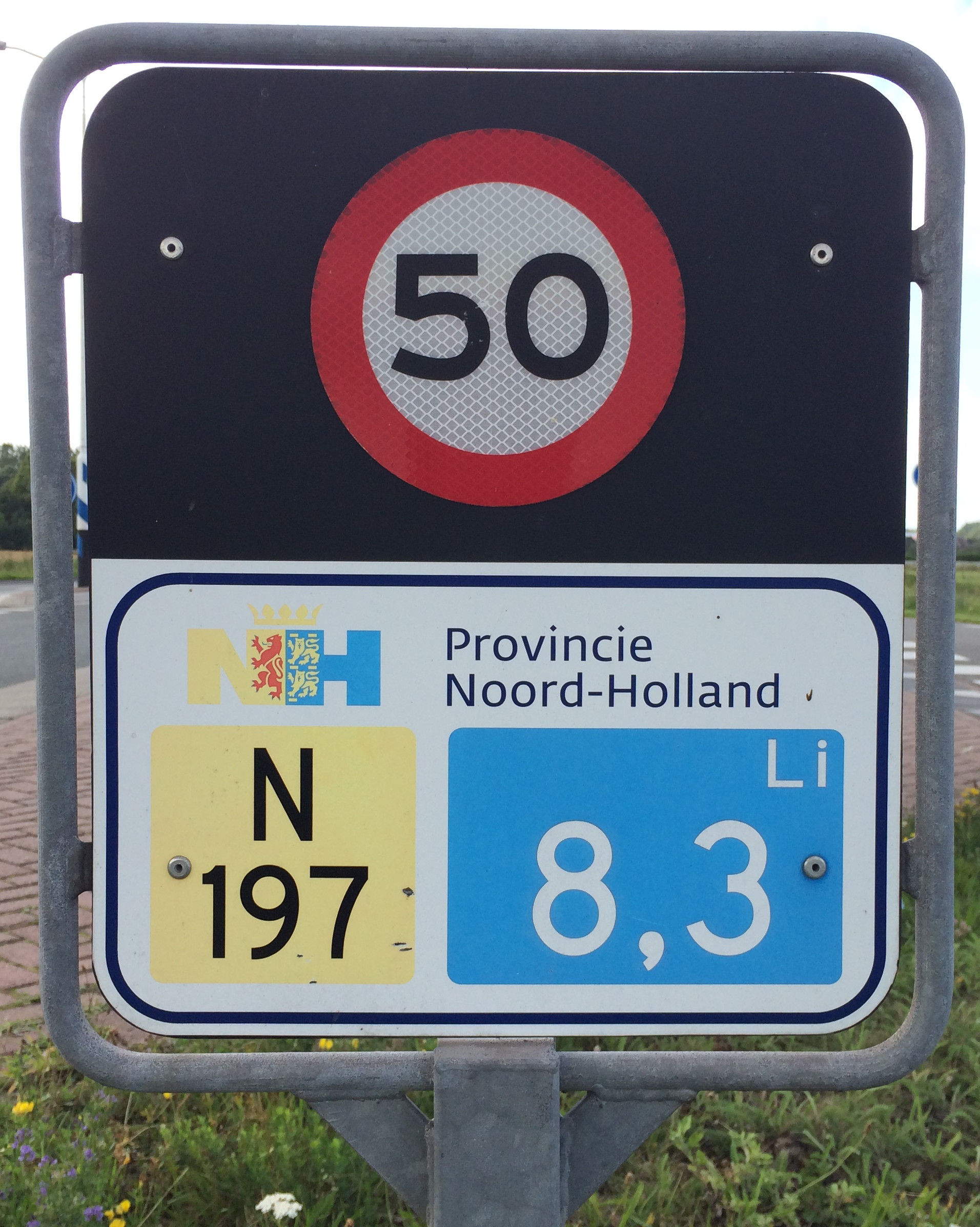 Location marker of Dutch provincial road N197.